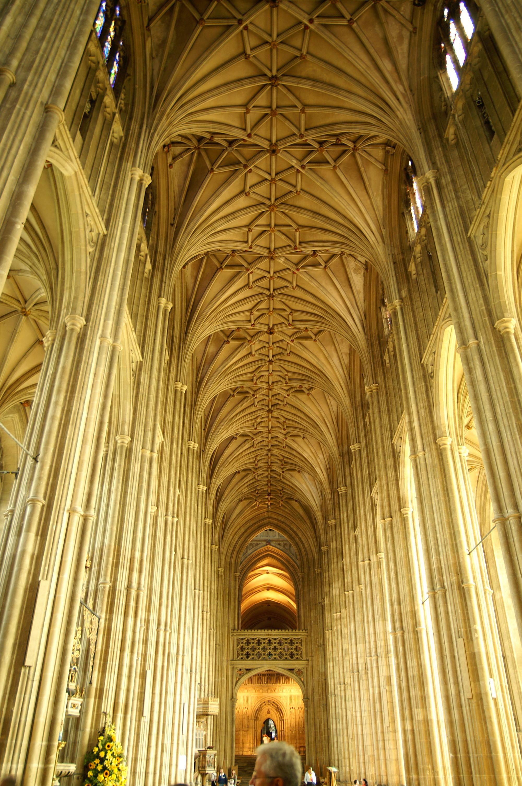 (2007/08/02 Canterbury, Kent, England, UNITED KINGDOM) /* UNESCO World Heritage */ Canterbury Cathedral, St. Augustine's Abbey, and St. Martin's Church (1988) 世界遺産「カンタベリー大聖堂、聖オーガスティン大修道院と聖マーティン教会」